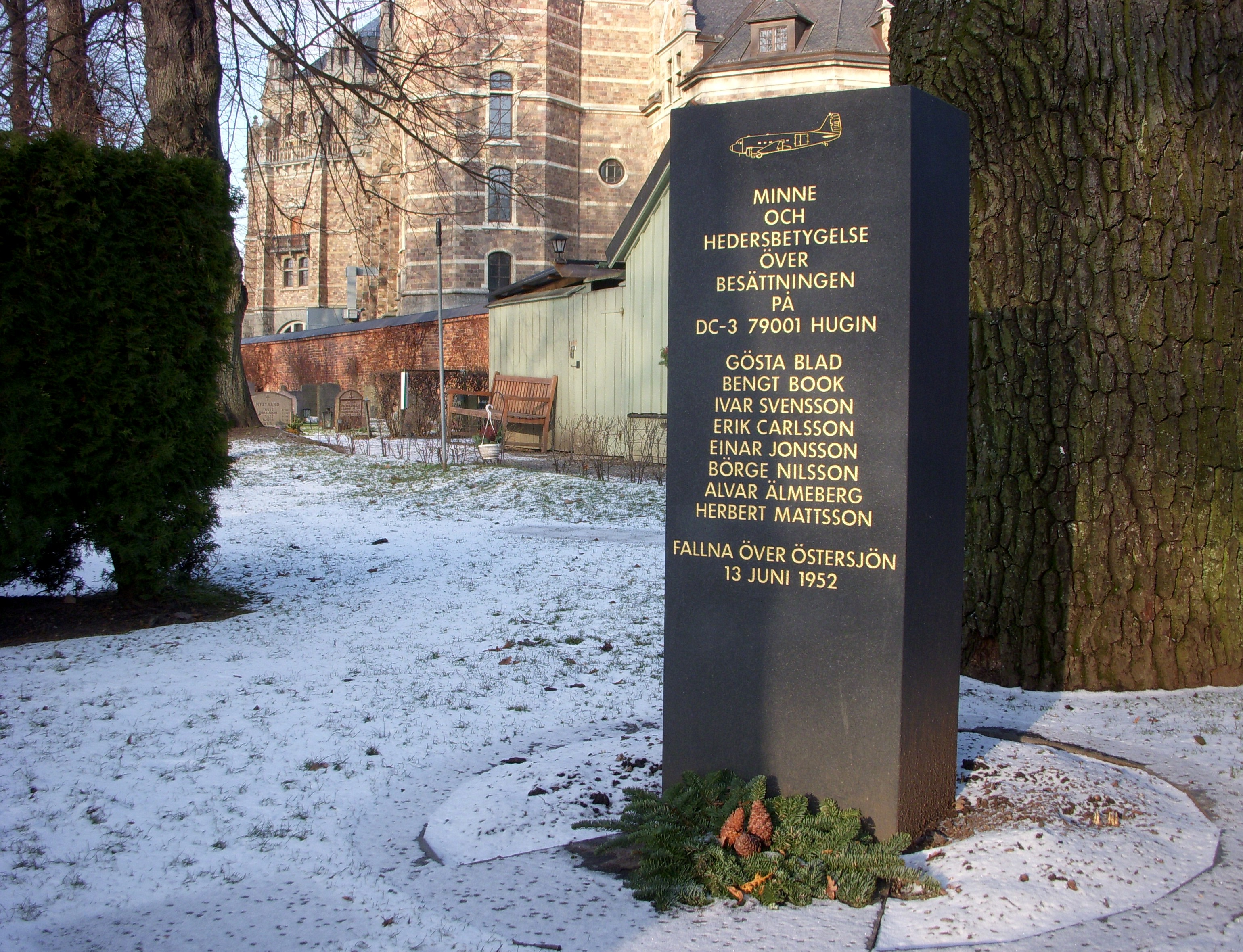 Memorial for crew members of DC-3 shot down over Baltic Sea in 1952 at Galärvarvet Church, Djurgården, Stockholm